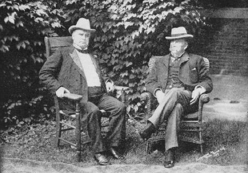 President William McKinley and Vice President Garret Hobart at Hobert's summer home, Norwood Park in Long Branch, New Jersey, during the summer of 1899.